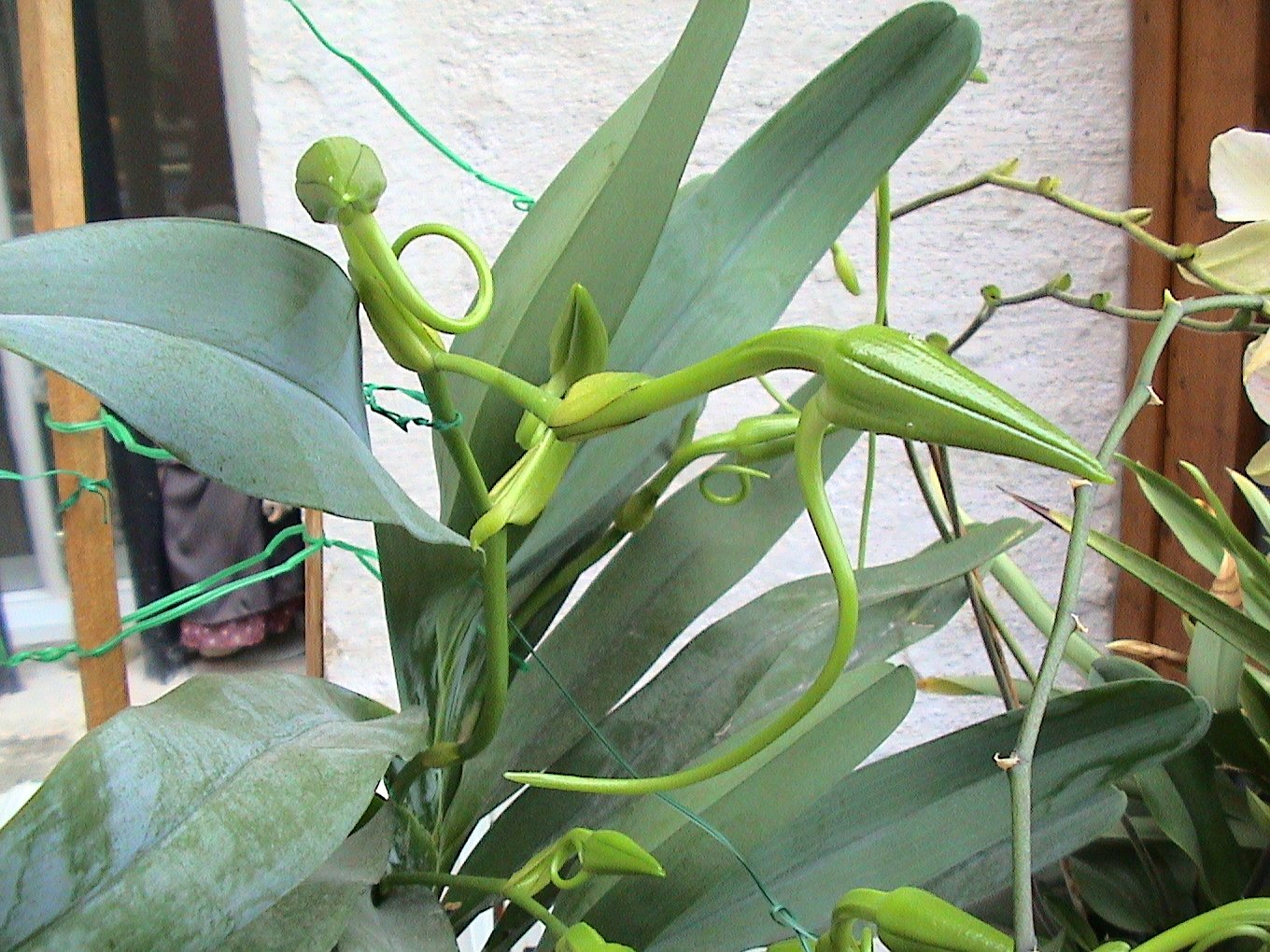 Angraecum sesquipedale Photo by Thérèse Viard Plant cultivated in France, december 2006